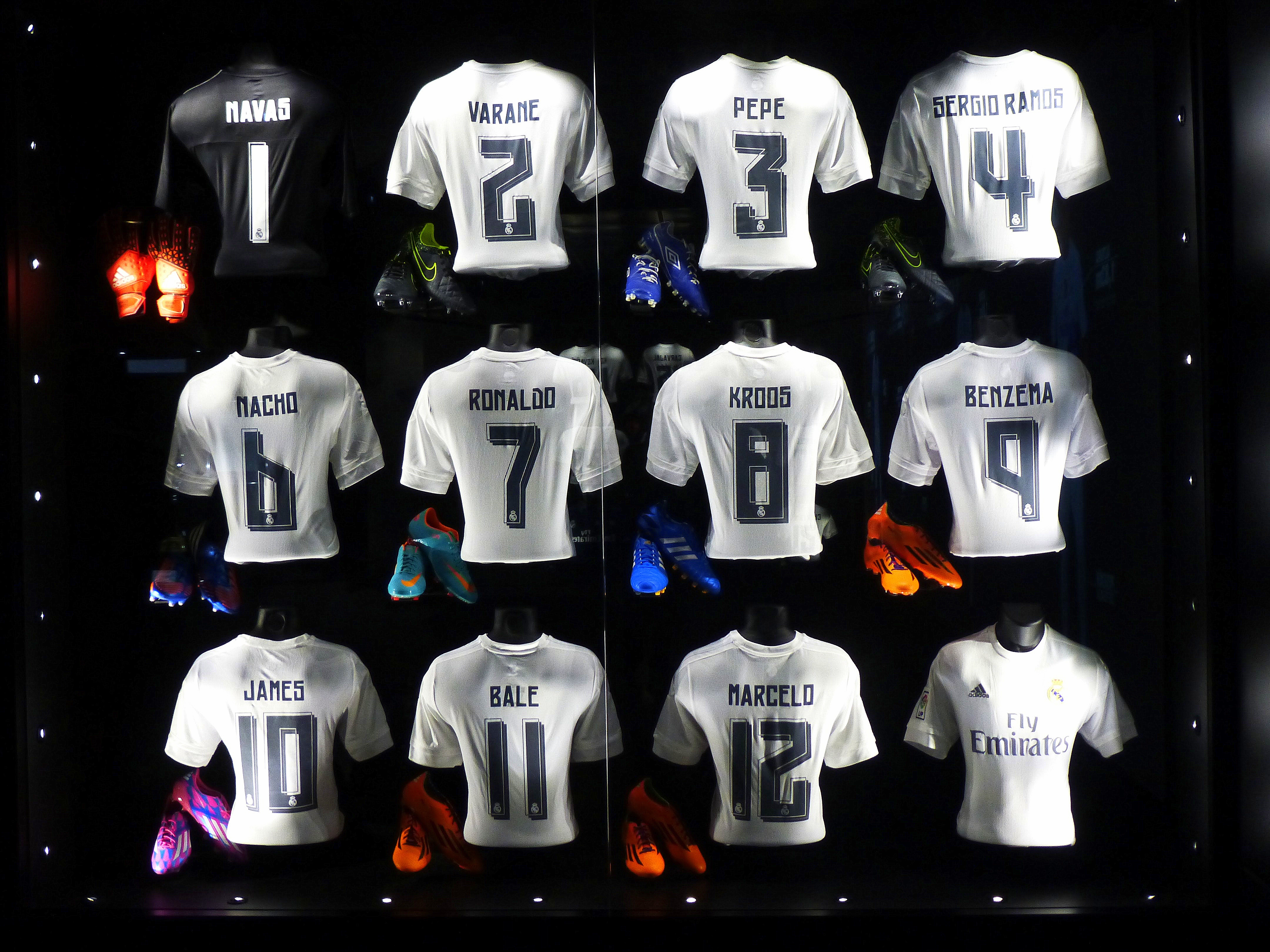 Tour of Real Madrid Stadium Dec 24, 2015, 2-09 PM